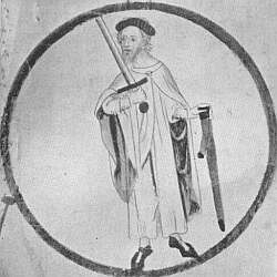 Wifred II of Barcelona